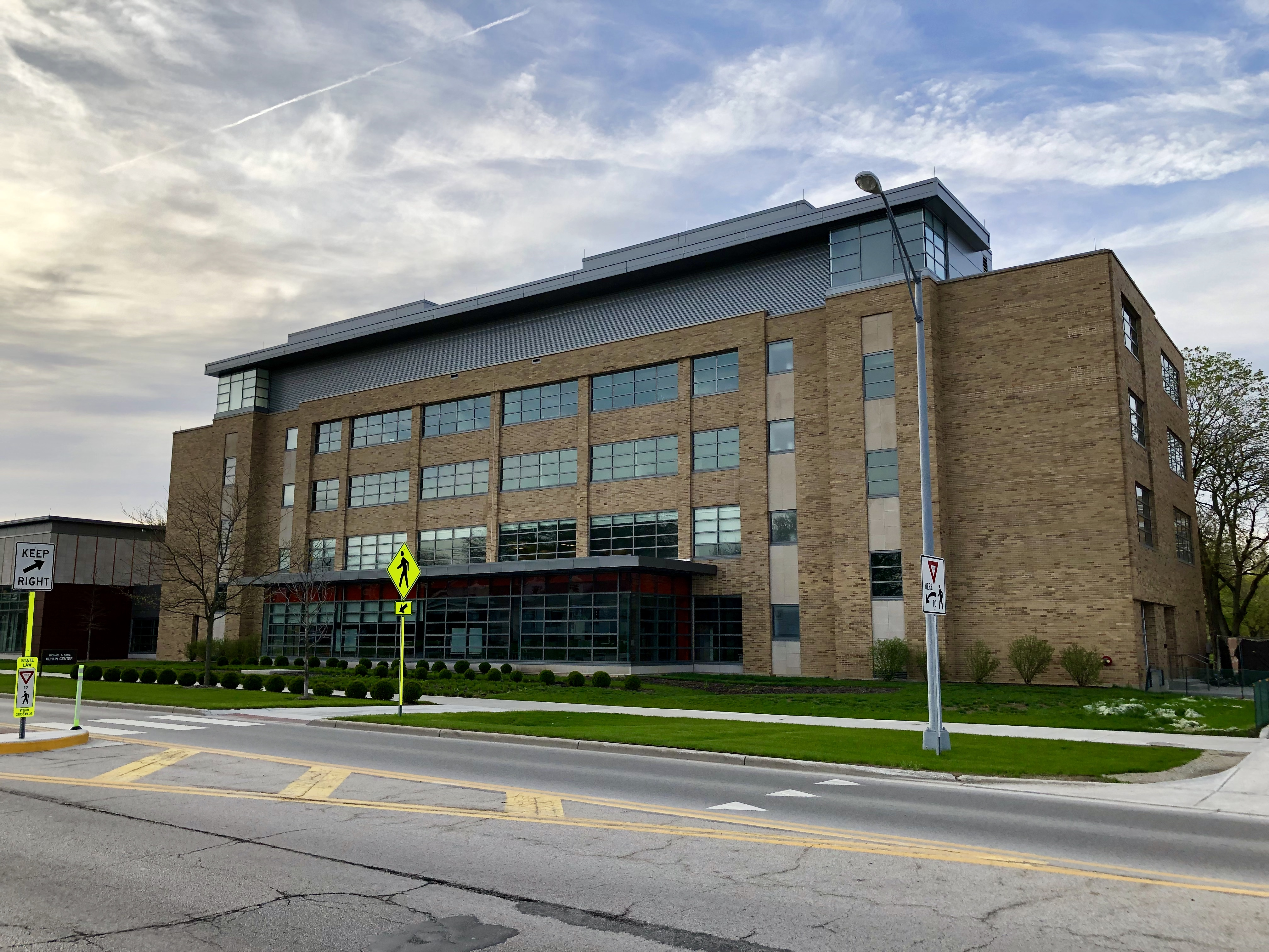 The Kuhlin Center at BGSU. Formerly known as South Hall. Primary Journalism building of BGSU. Hosts BG Falcon Media newsroom, radio, and television recording studios.